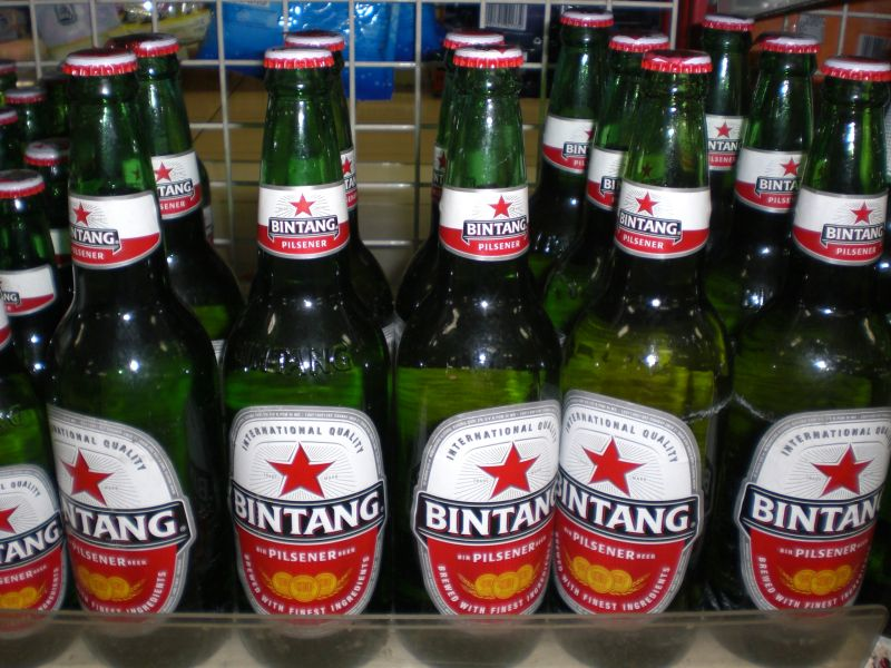 Indonesian Beer Bintang